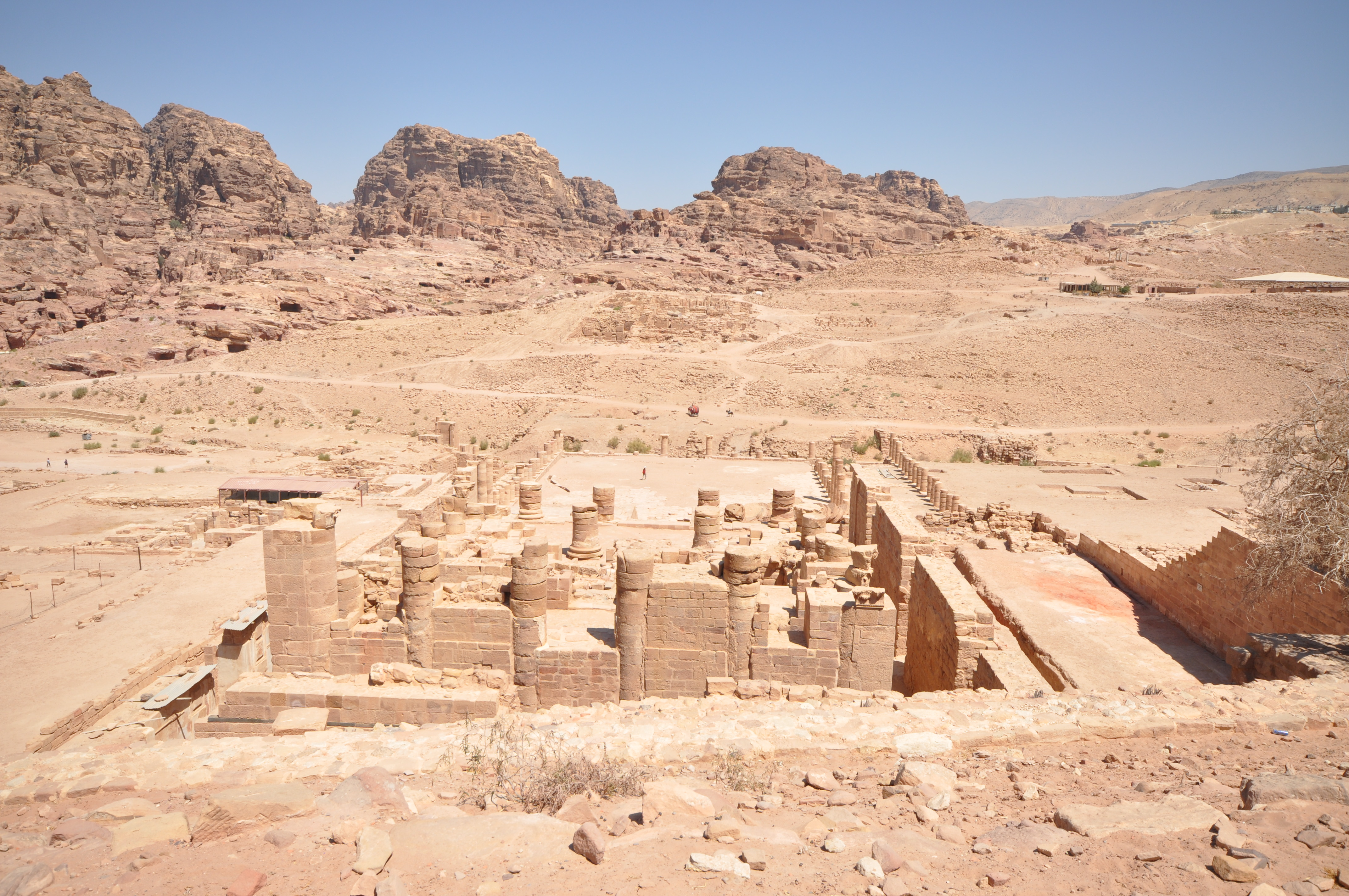 The Petra Church is a Byzantine church in the ancient city of Petra.